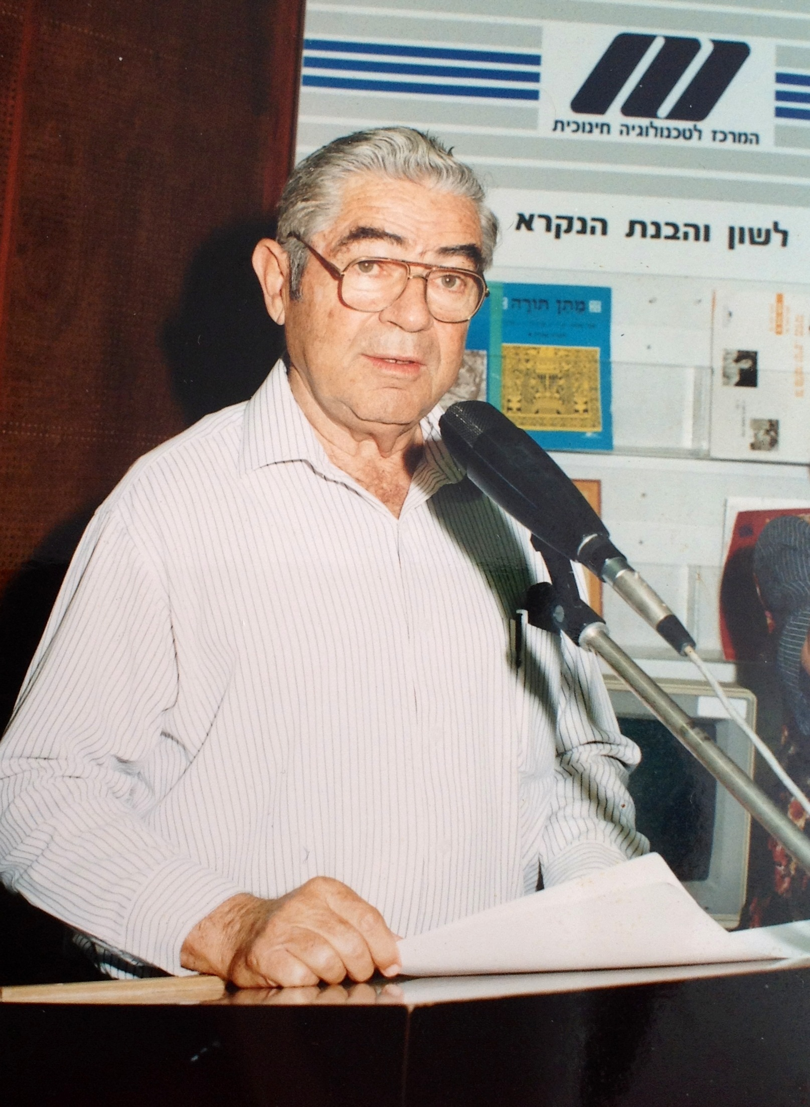 ד"ר יונה פלס